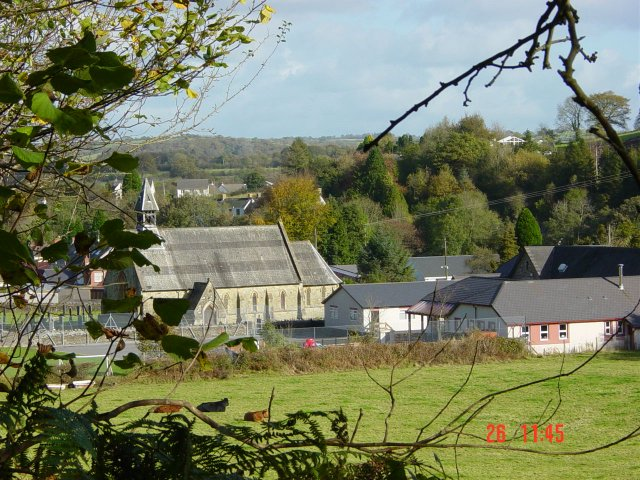 Part of Drefach Velindre, Carmarthenshire, Wales, seen from the south. Centre left is the parish church of St Barnabas.